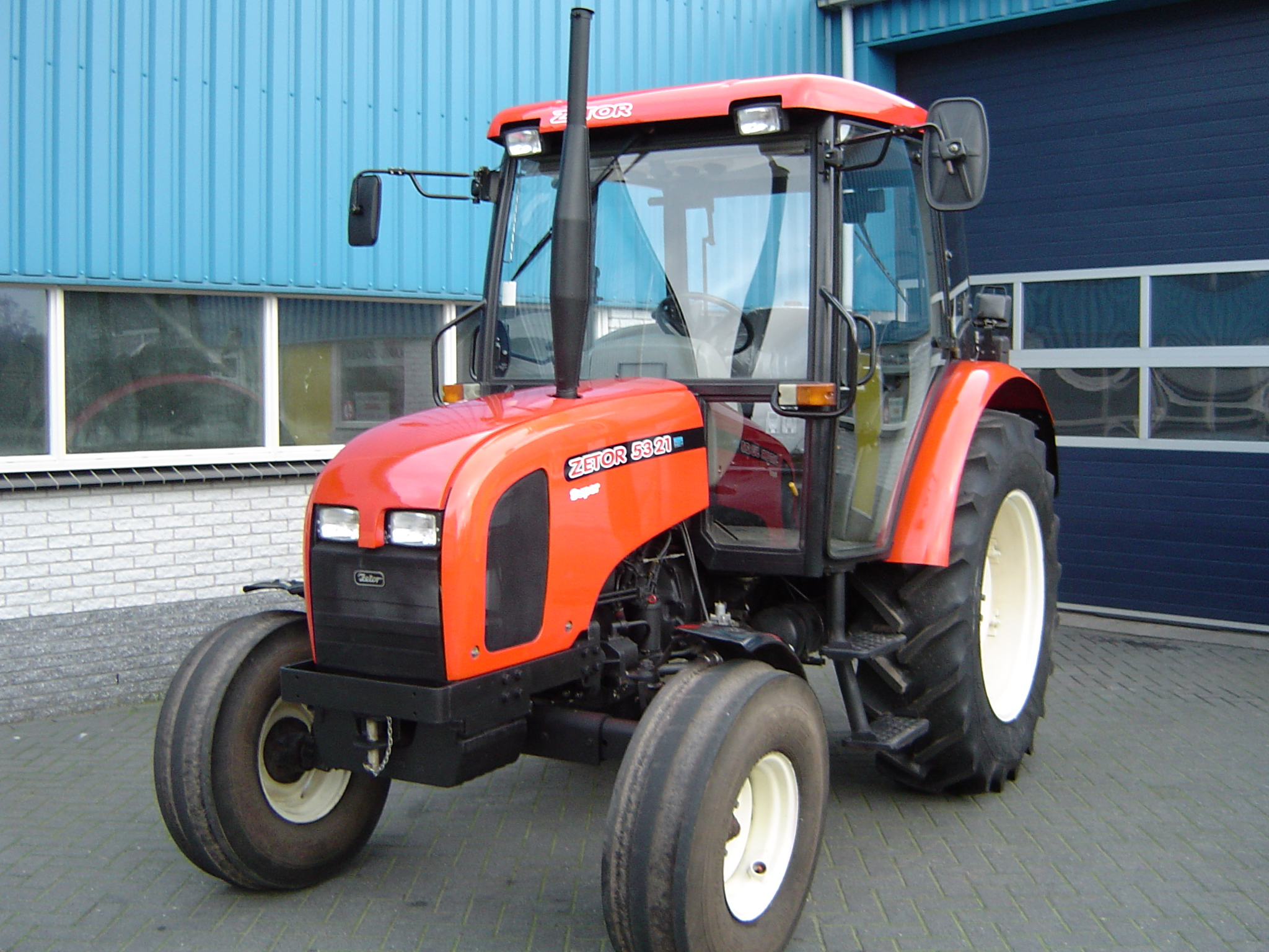 Zetor 5321 Super, tractor.